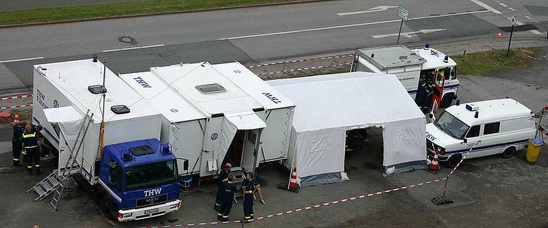 Leading Unit of THW